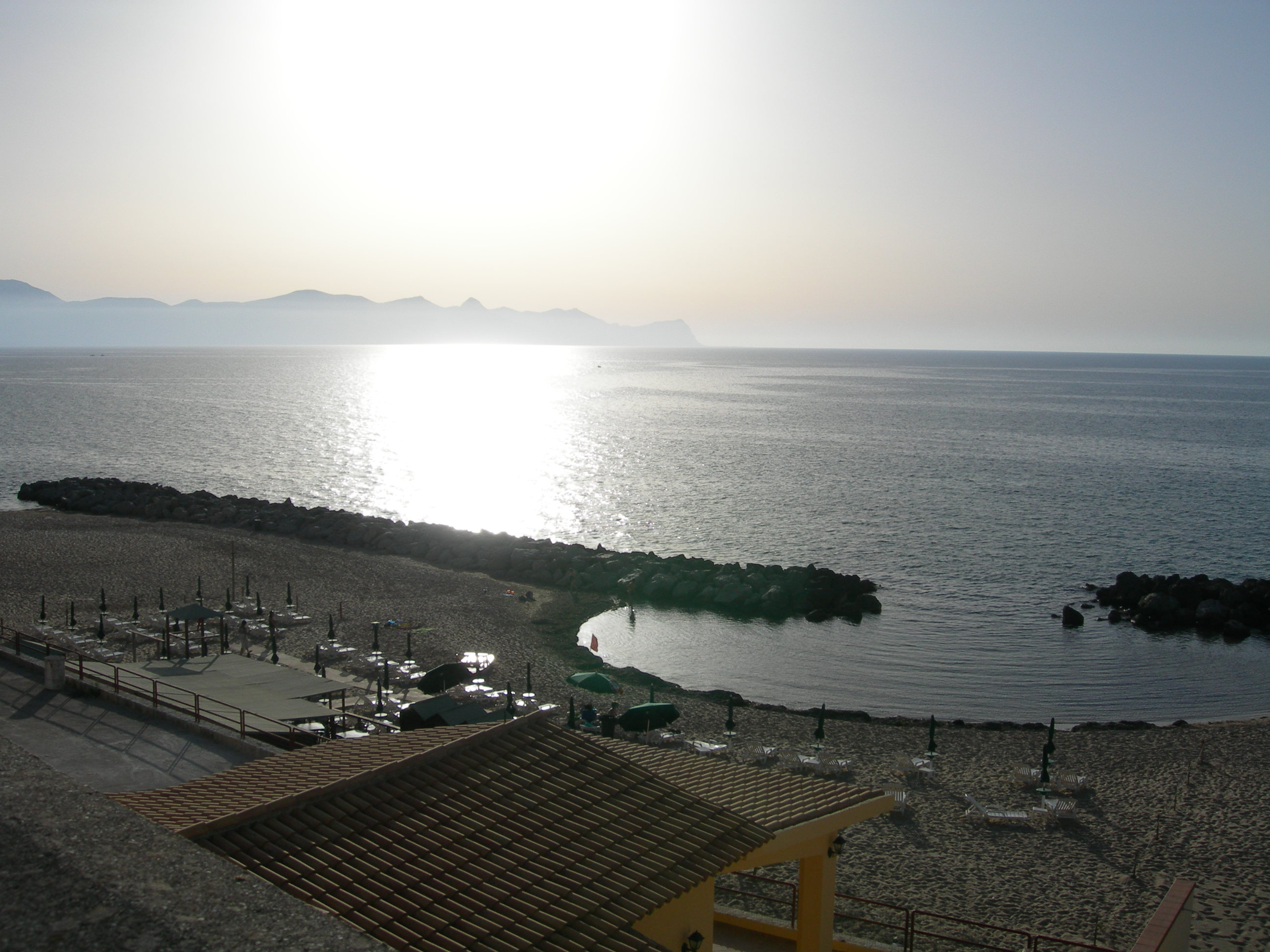 Trappeto (Palermo): the beach